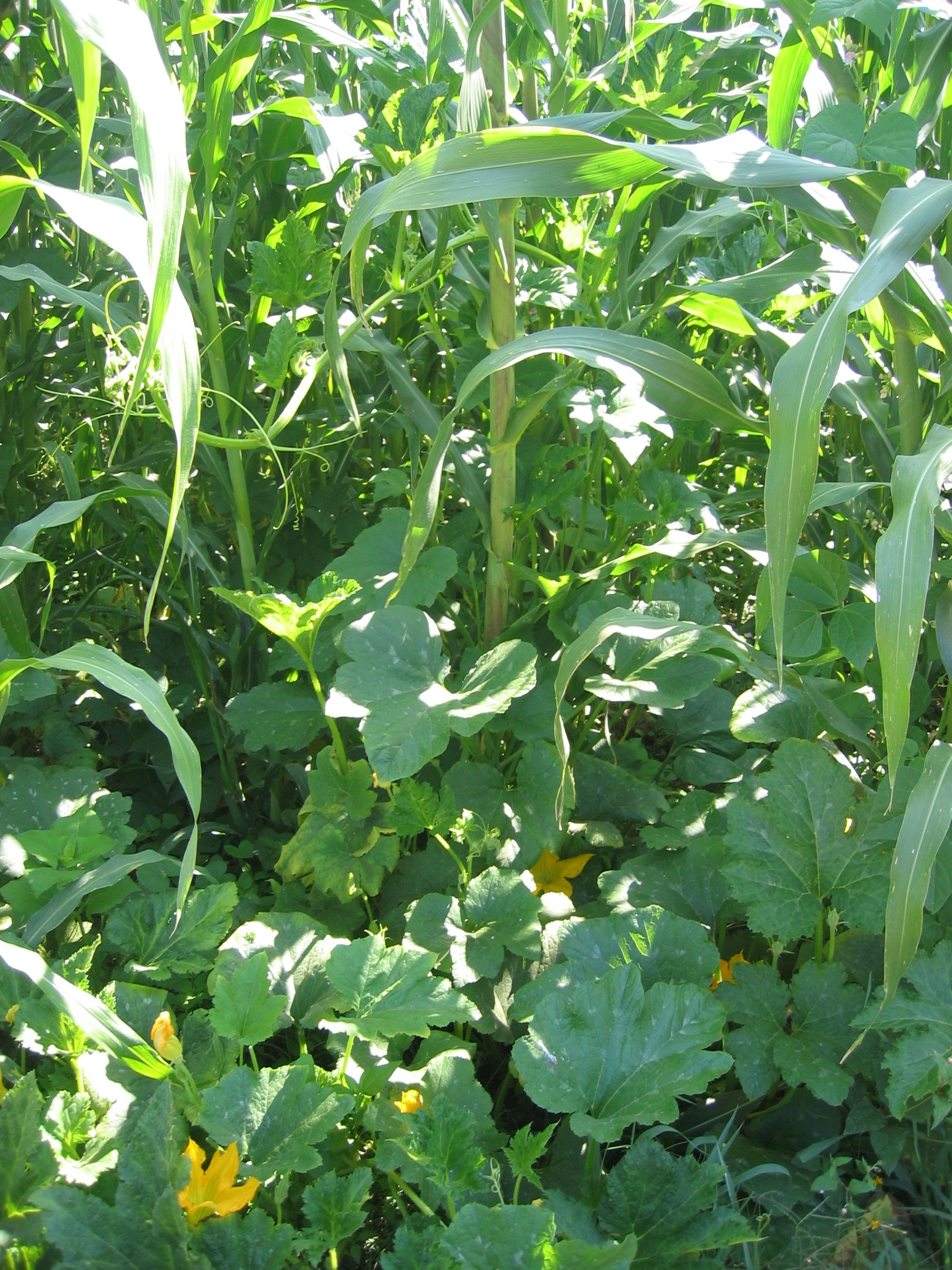 Traditional cultural association between Maize, squash and beans, called Milpa in the region. Agronomic pratice already used by Mayas and Aztecs Photo taken in the Mixtepec region in Mexico.